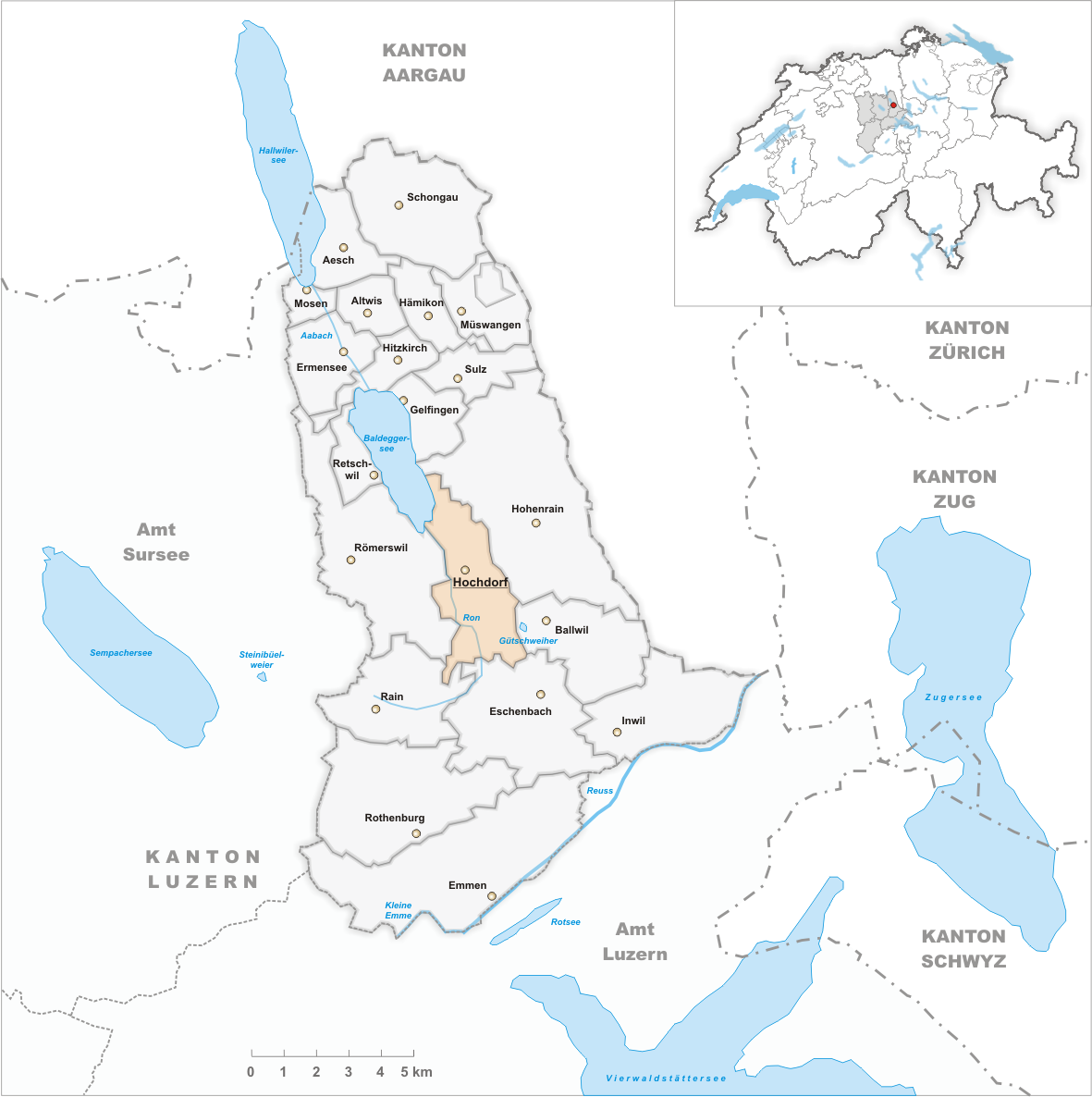 Municipality Hochdorf